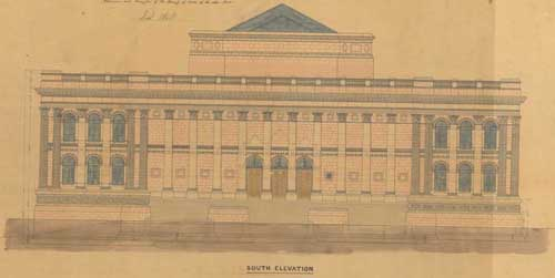 Early drawing of Leeds Town Hall, by the architect Cuthbert Brodrick.